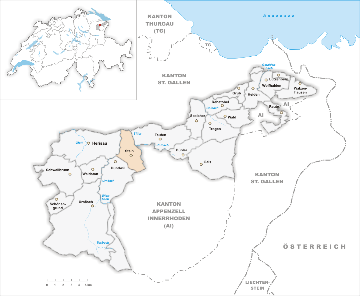 Municipality of Stein